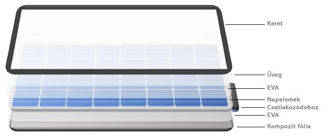 General structure of crystalline silicon solar cells (Frame, Glass, EVA = ethyl-vinyl-acrylate, Solar cells, Junction box, EVA, Composite foil).